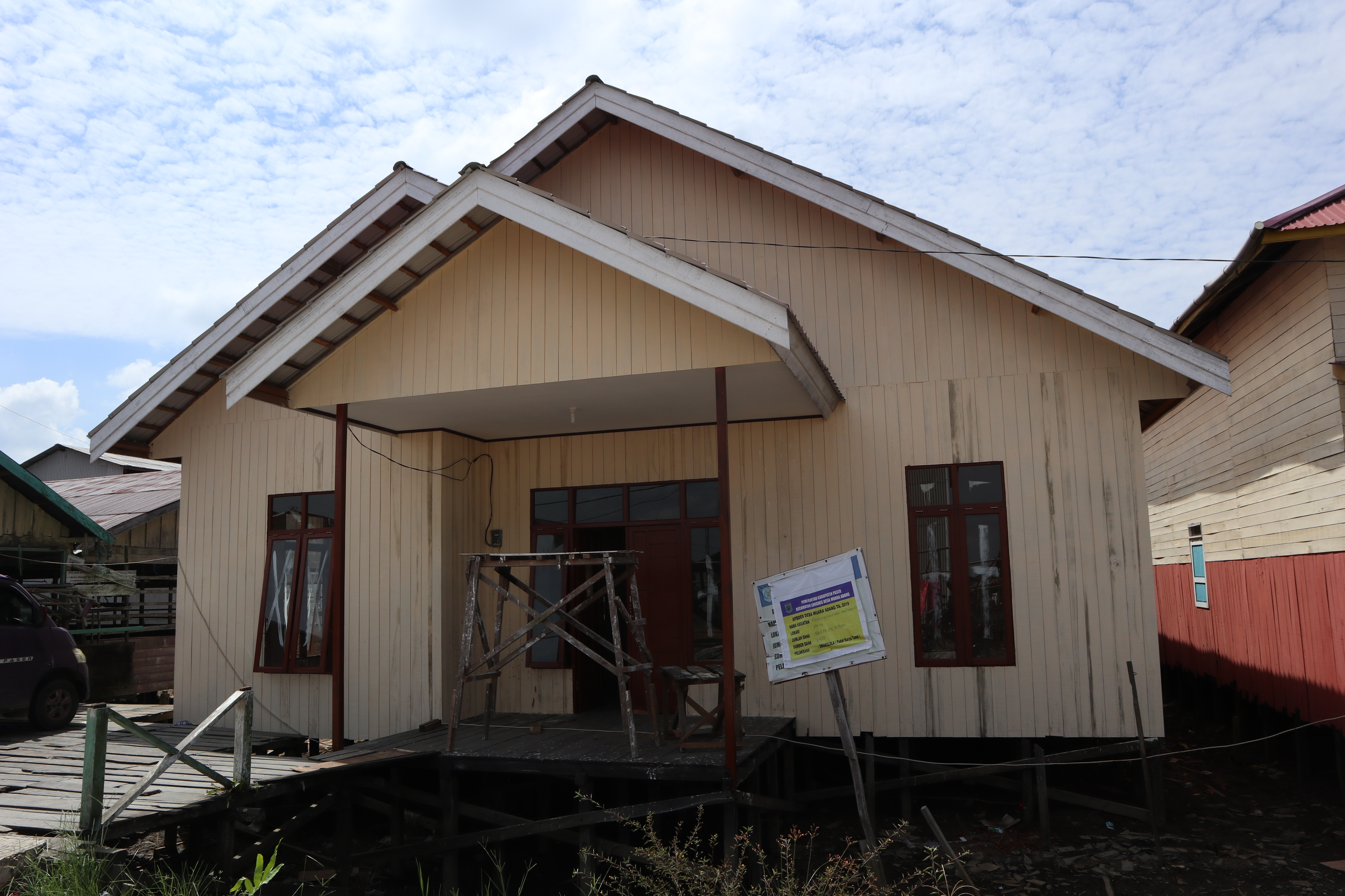 Muara Adang village office in Long Ikis subdistrict, Paser Regency, East Kalimantan, Indonesia.